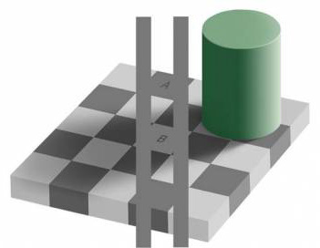 The original image plus two stripes By joining the squares marked A and B with two vertical stripes of the same shade of gray, it becomes apparent that both squares are the same.